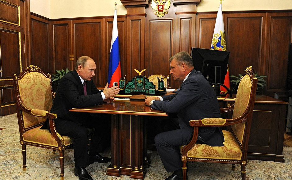 Рабочая встреча Владимира Путина с врио губернатора Кировской области Игорем Васильевым